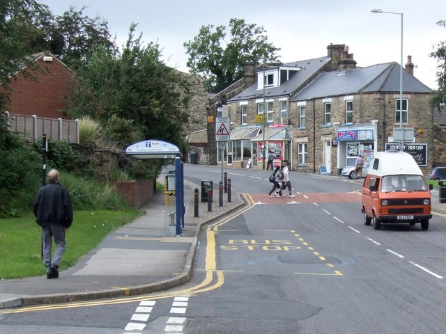 Crookes, Crookes On the right, just above Coombe Road is Mr B’s Off Licence and back in the ‘60s it was a Butchers Shop. Beyond the house is DJ’s News, which as the name suggests, is a Newsagents, as it was back then. Next door is Da Vinci Hair, Hairdressers, which used to be Darnell’s Drapers Shop. There are a couple more houses and between them and The Works Beauty Studio, is Wesley Lane. On this side of the road, just beyond Bute Street, was Ideal Upholstery Services - Charles Scruton, Hairdresser - Dow Electrics, Electrical Appliance Dealers and H Vicars, Fishmonger. All gone by the '70s. Charles Scruton, the hairdresser was a pleasant mild–mannered man. The problem with him was that he was good at his job and so the shop was nearly always full, which often meant a long wait.